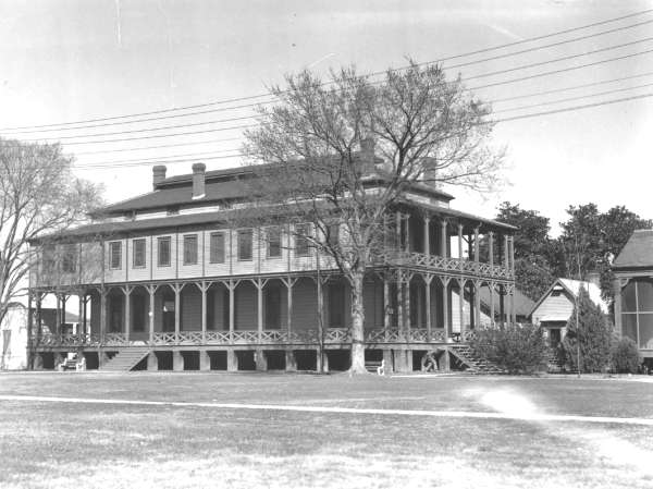 Jackson Barracks, New Orleans, Louisiana. "Old building since demolished by WPA. Exterior. "